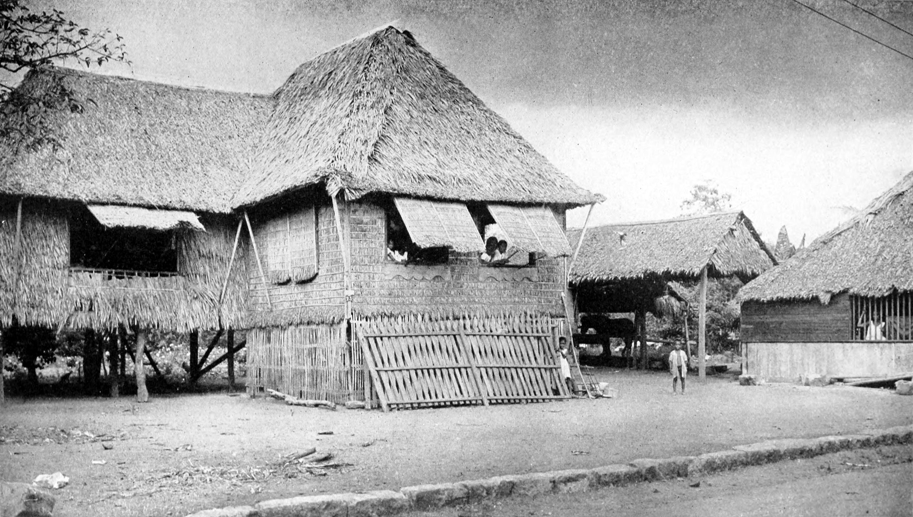 A country house in the Philippines, typical of the native Filipinos.